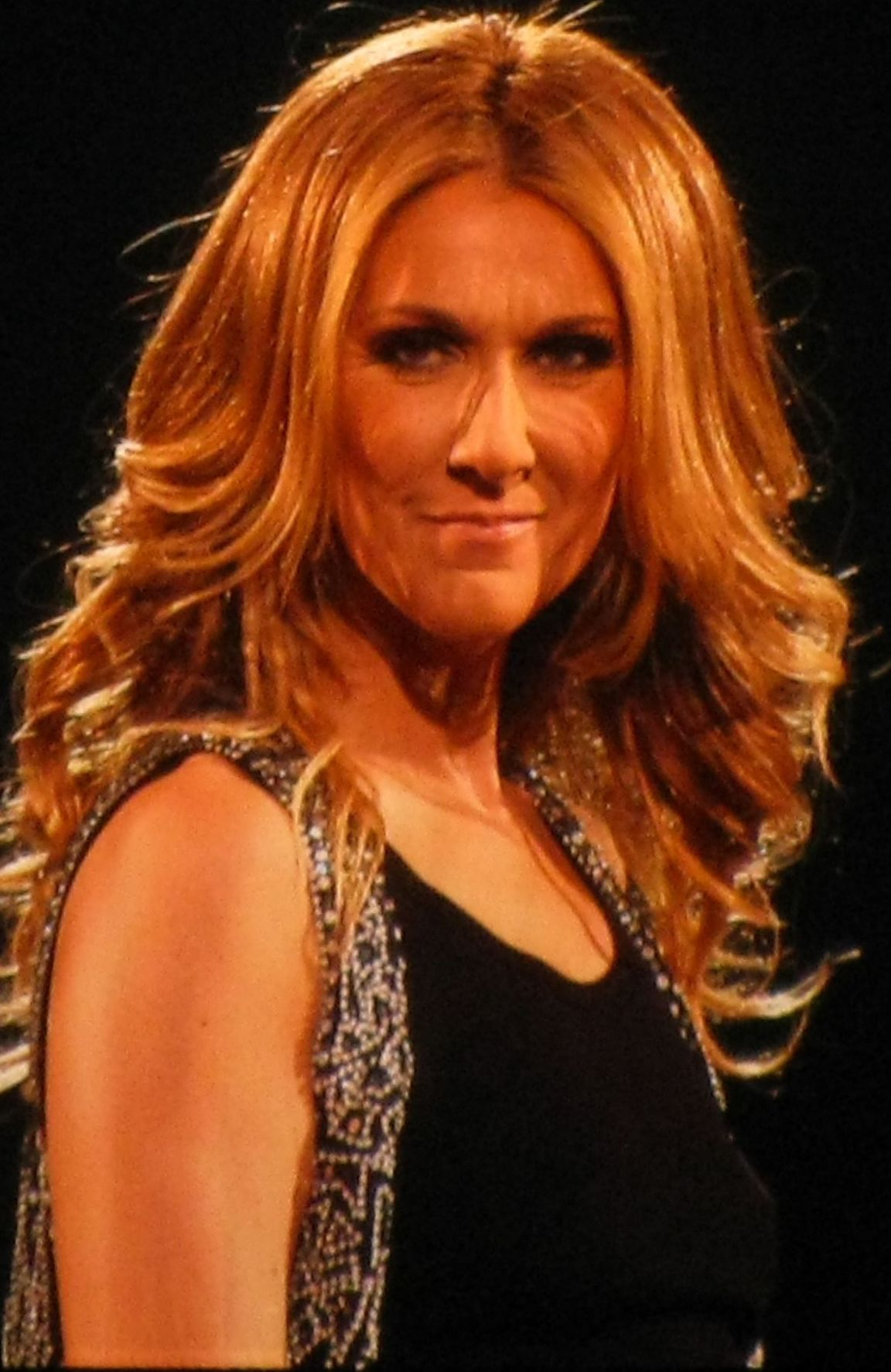 Celine Dion performing "Taking Chances" at Celine Dion 'Taking Chances Tour' Concert @ Bell Centre, Montreal, Canada in August, 2008.